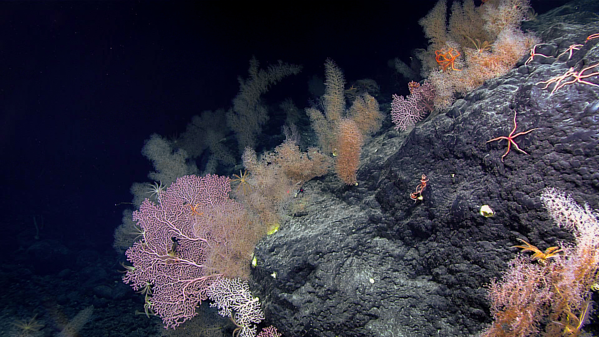 On September 10, 2017 while exploring Sibelius Seamount, the team observed this garden of coral at a depth of 2,465 meters. This garden was one of two high-density communities observed during the dive.